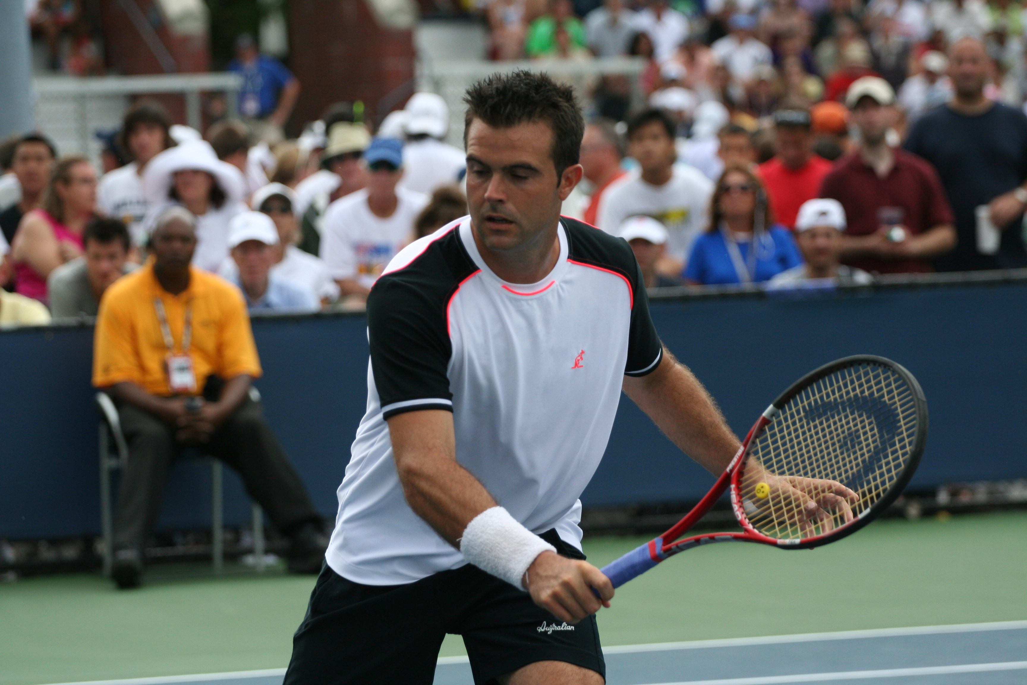 Italian tennis player Daniele Bracciali at the 2010 US Open.